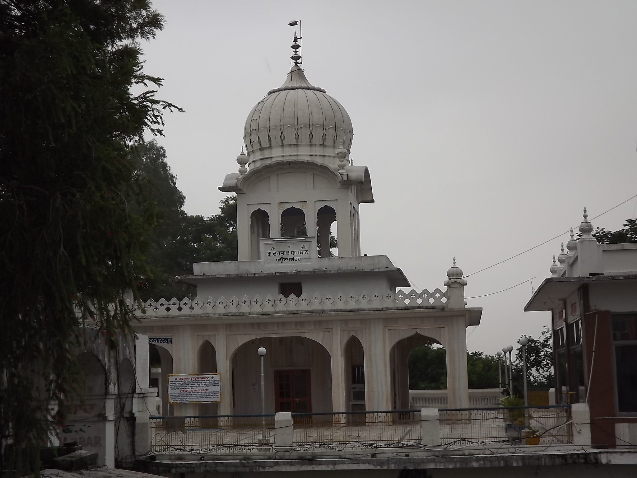 Gurdwara Paonta Sahib